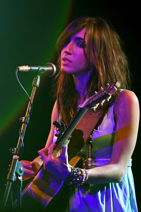 Singer and actor Kate Voegele playing a concert in Berlin on 25/11/2009.